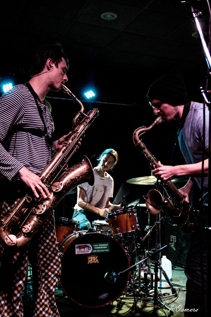 American band Moon Hooch at RIBCO, Rock Island, IL 11/7/14.